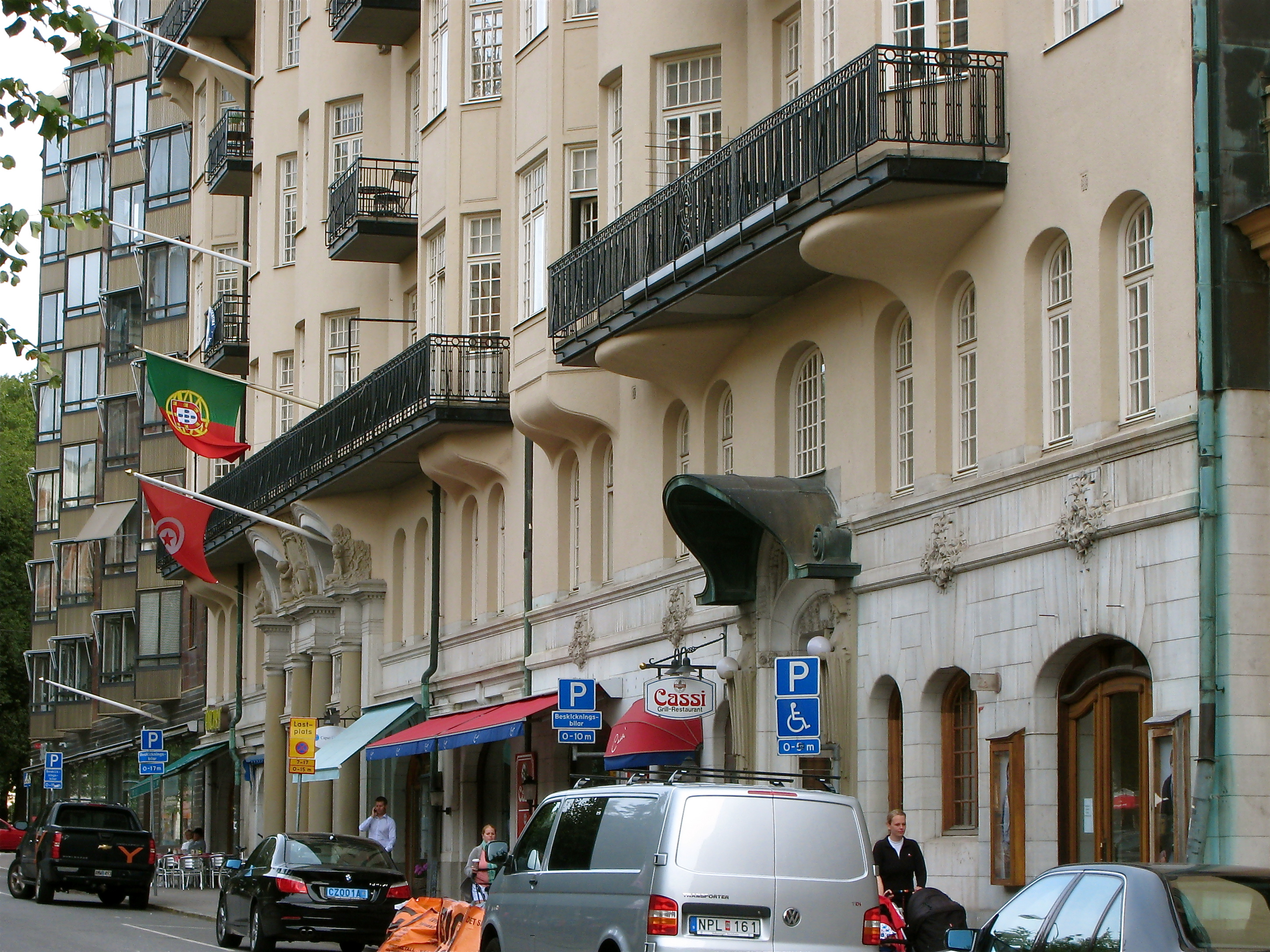 Narvavägen 30-32 (architecs Hagström & Ekman 1905). Home to Restaurant Casis (ground floor) and the Portuguese Embassy, Argentinian embassy and Tunisian Embassy in Stockholm.